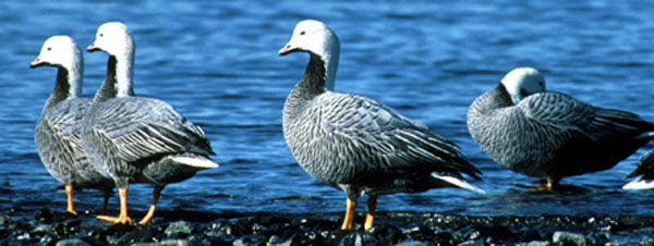 Emperor Goose